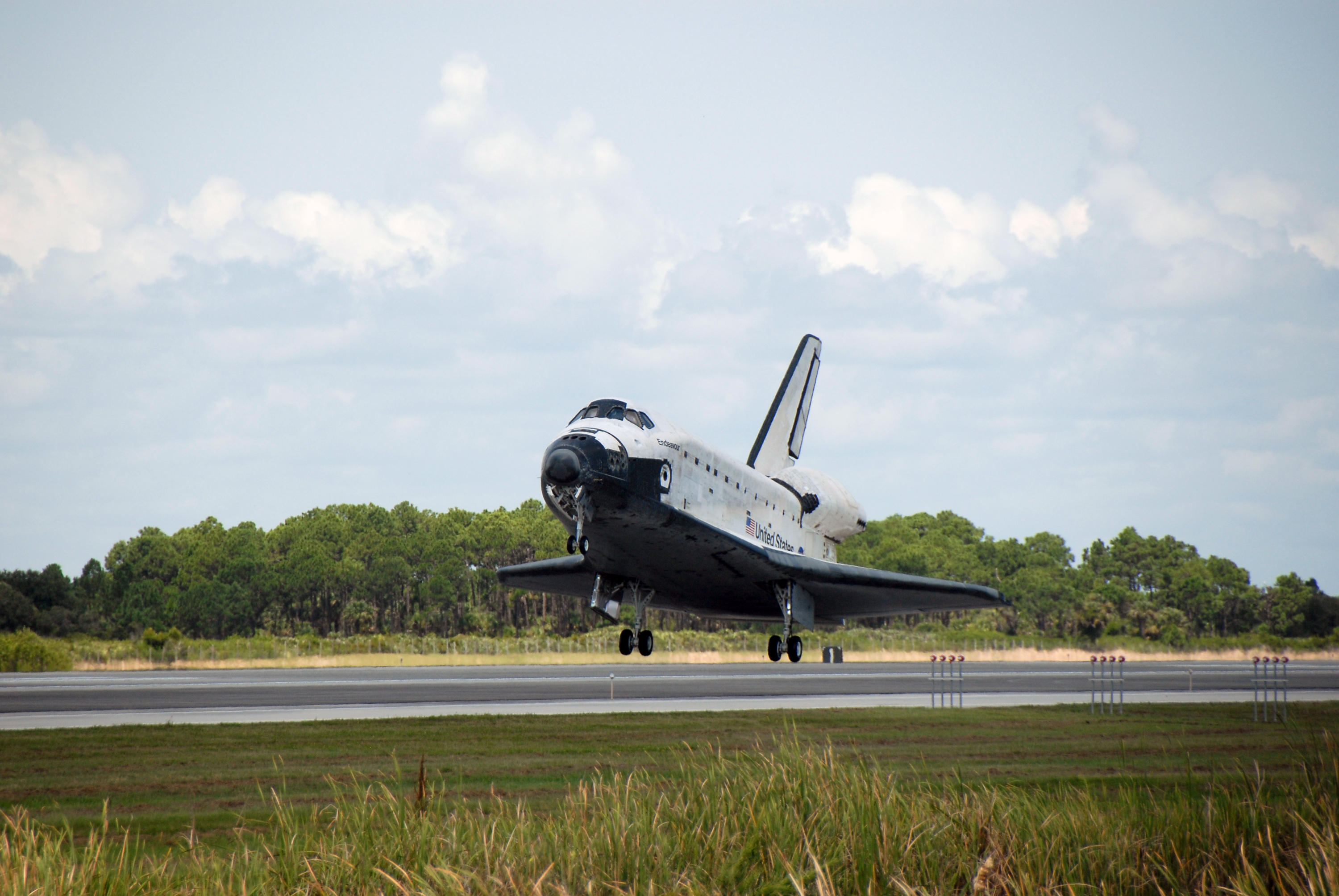 Space shuttle Endeavour landing at the end of STS-118 mission.